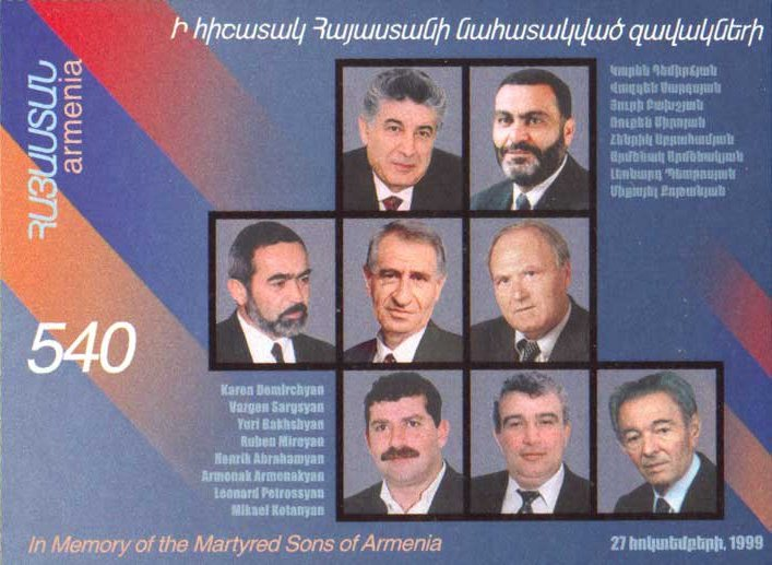 Stamp of Armenia